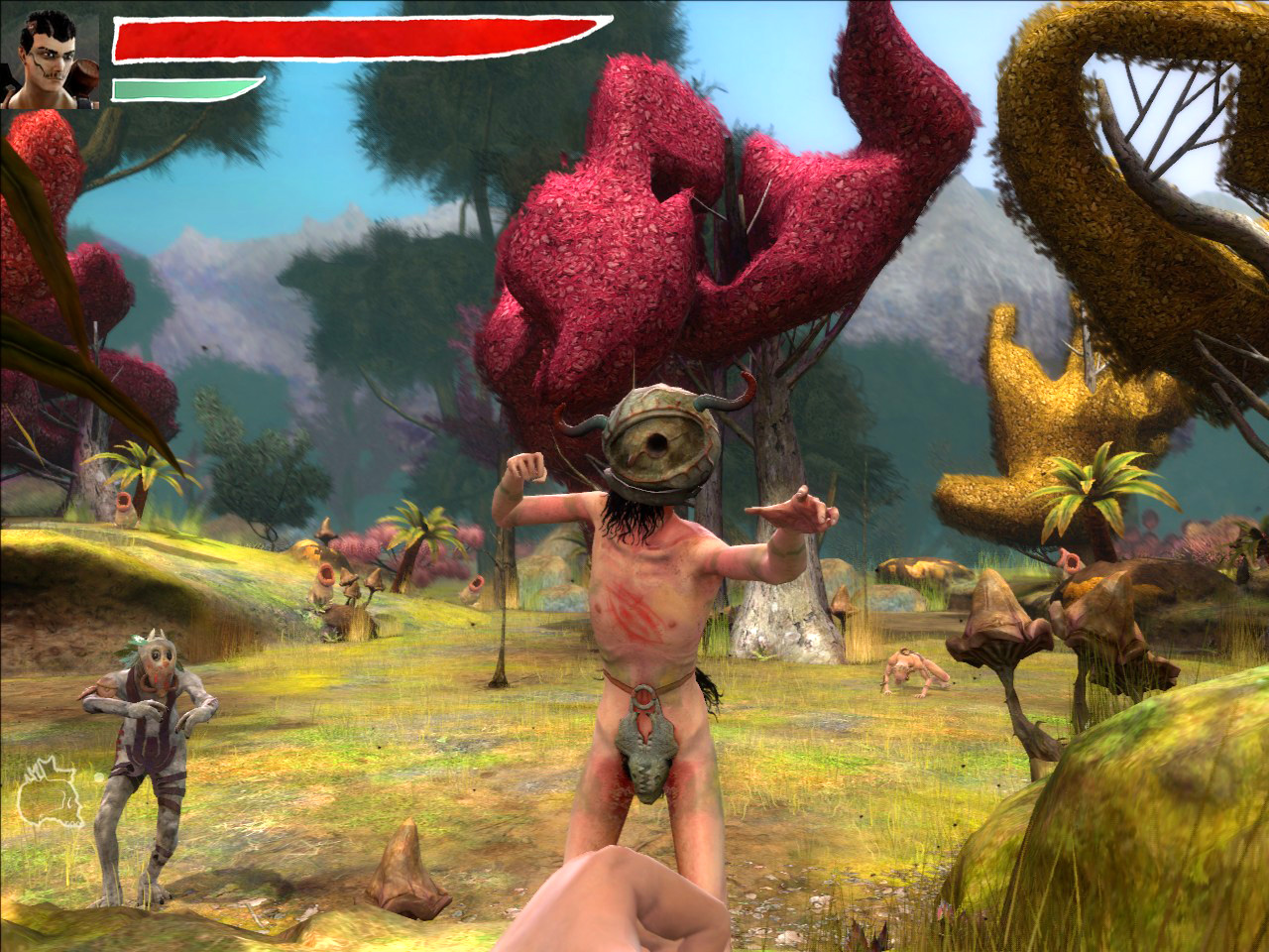 Zeno Clash screenshot. Released in 2009, the game was developed by ACE Team and is powered by Valve Software's Source engine.